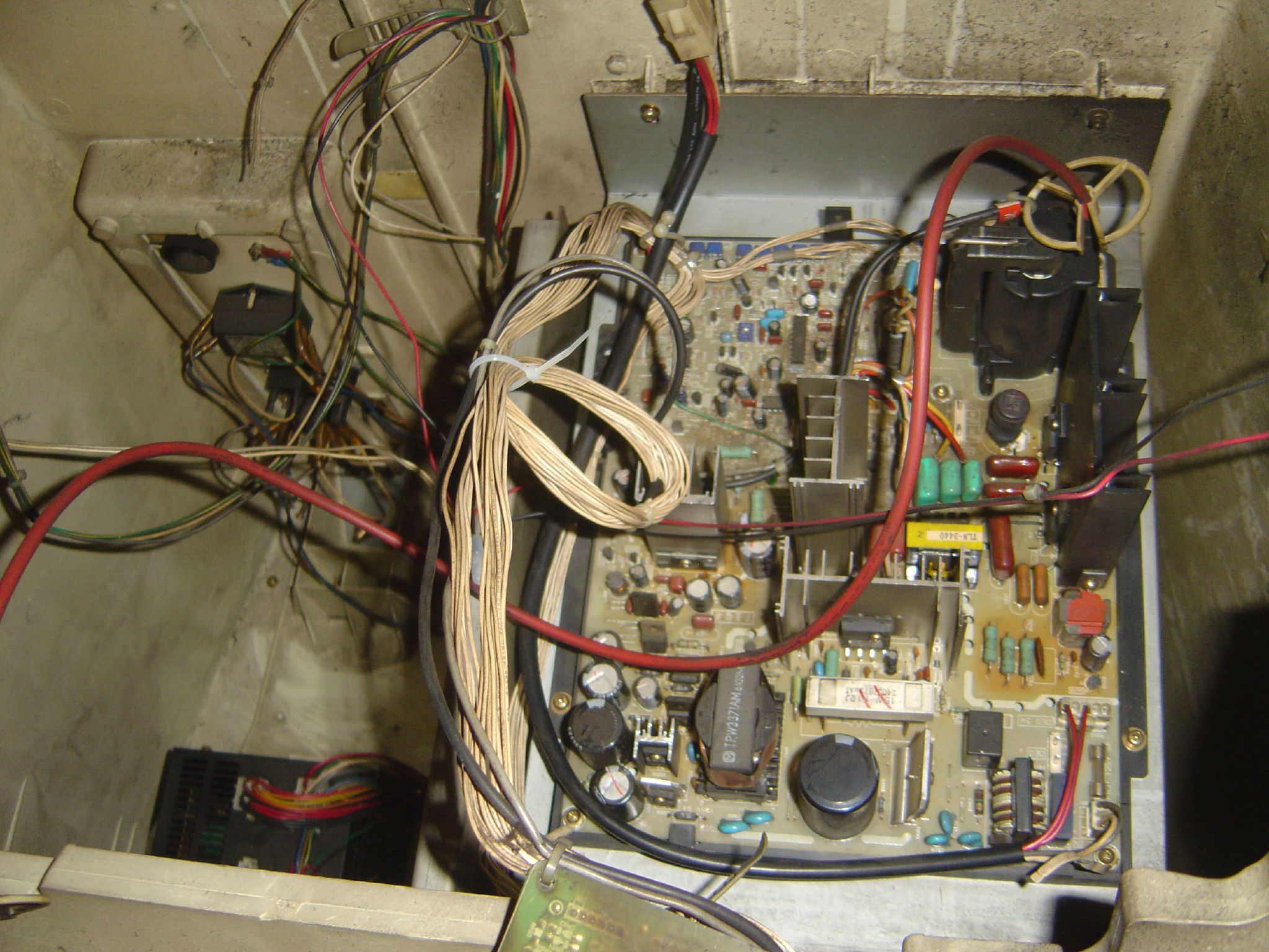 main board inside an arcade cabinet